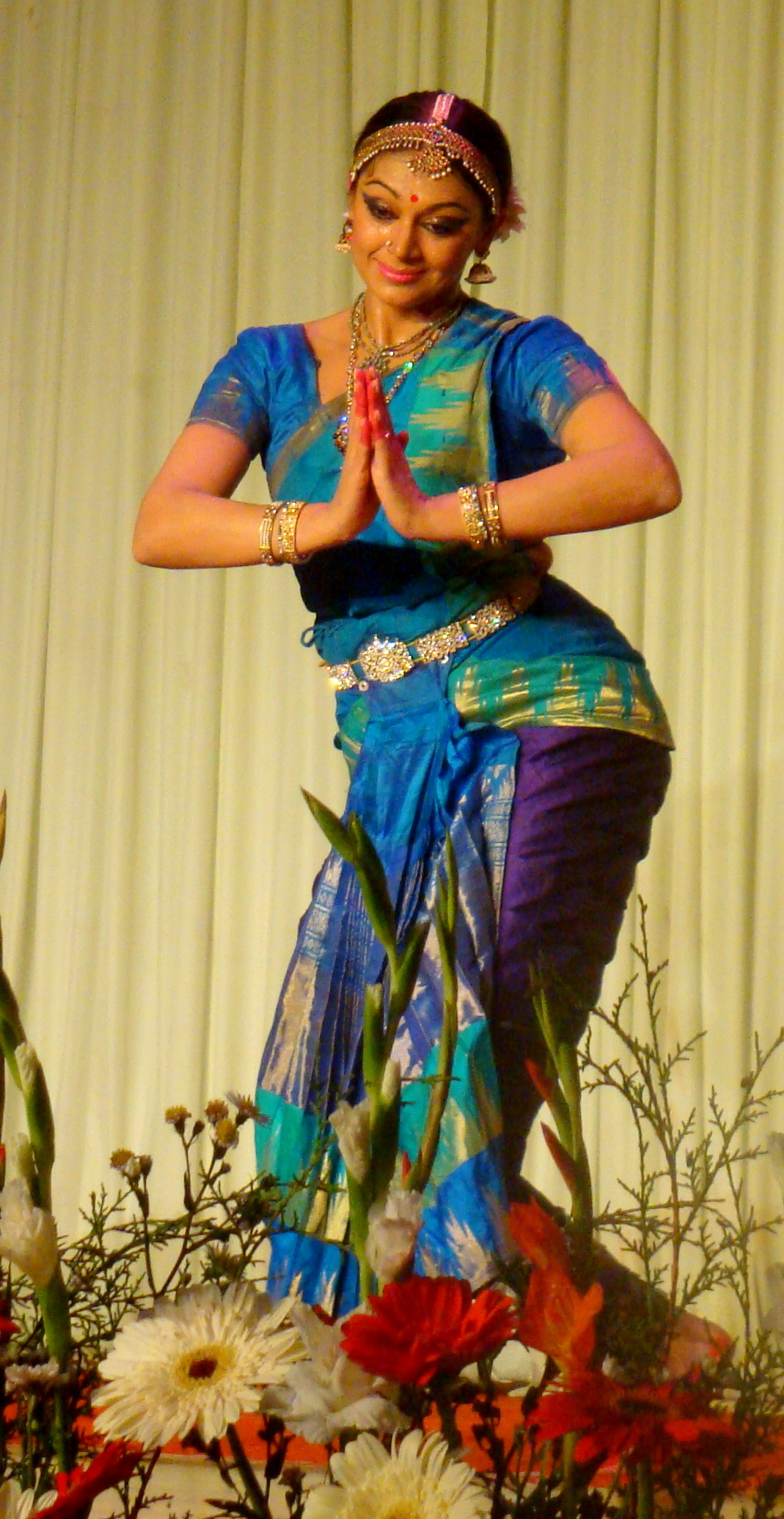 Shobana performing dance at High Court of Kerala